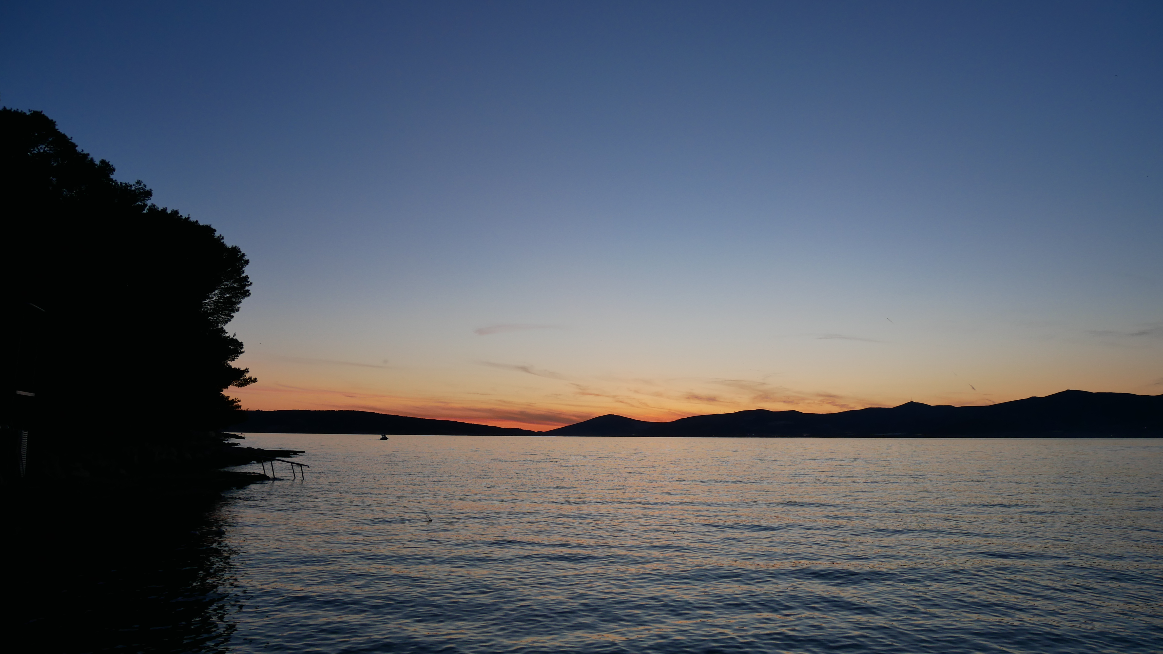 Sunset on beach Bene, Split Croatia